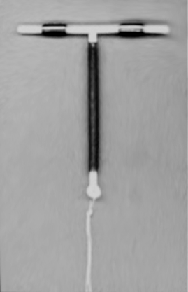 contraceptive method - Copper T 380A (brand name Paragard)